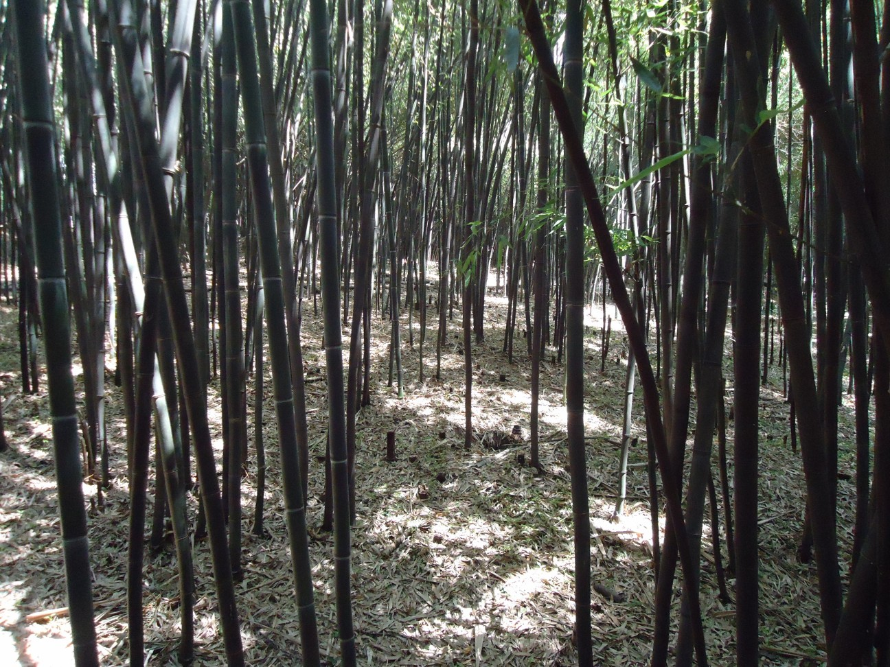 In the Rutgers gardens, there is a bamboo forest growing.